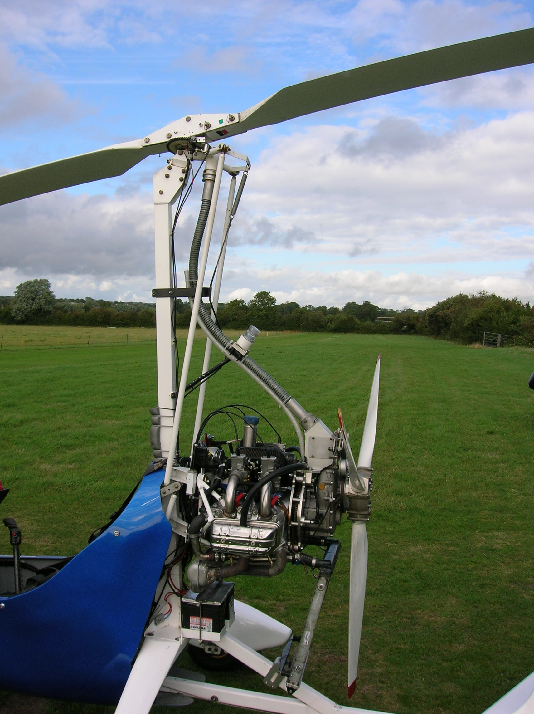 Closeup of the engine and rotor on a VPM M-16 autogyro